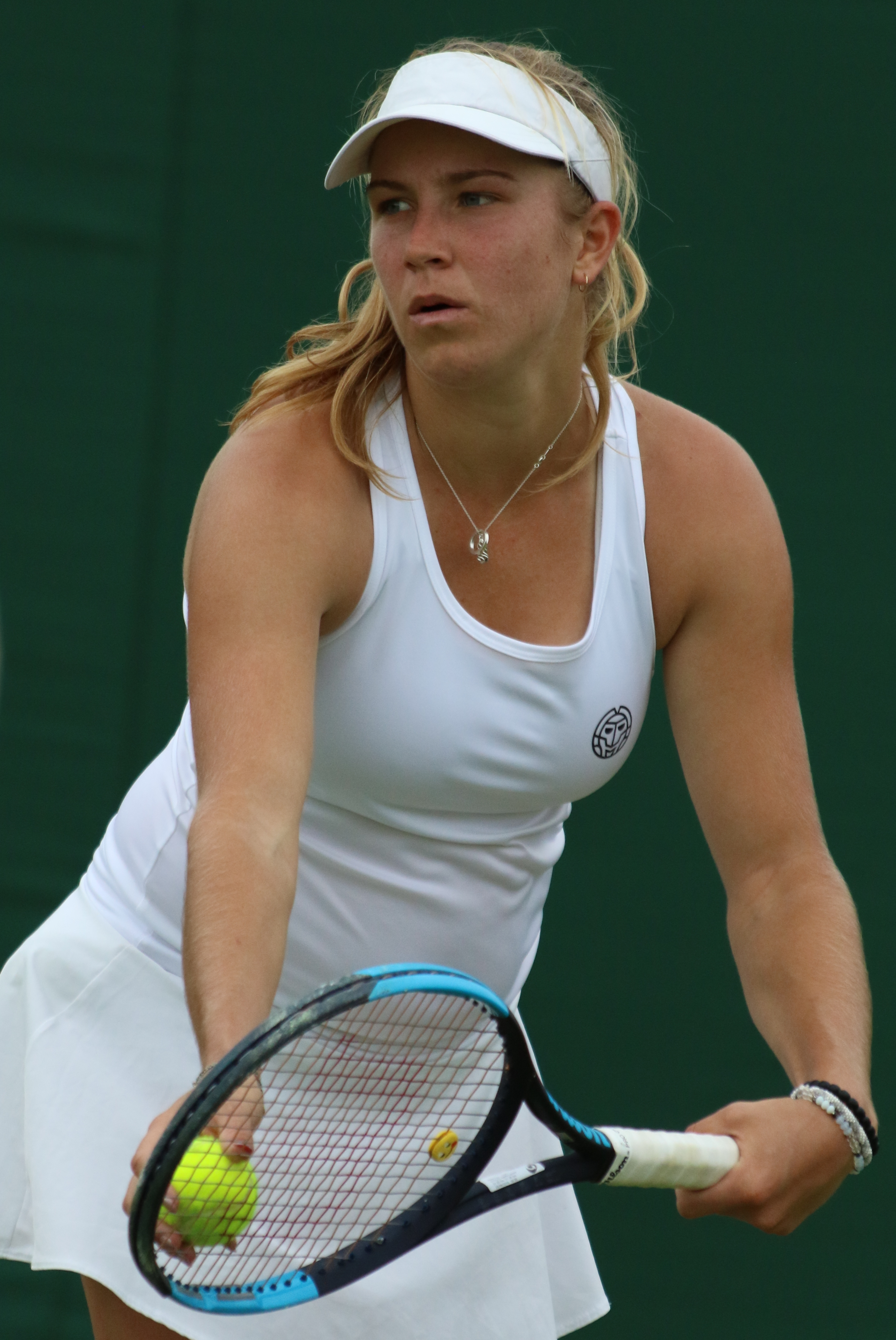 2019 Wimbledon Qualifying Tournament.